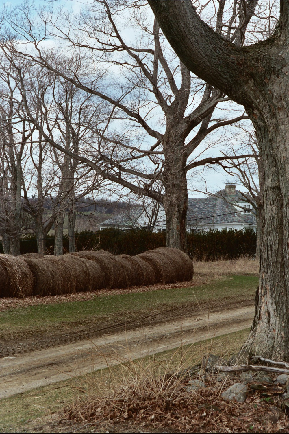 Landscape in Ancramdale (Columbia, NY)